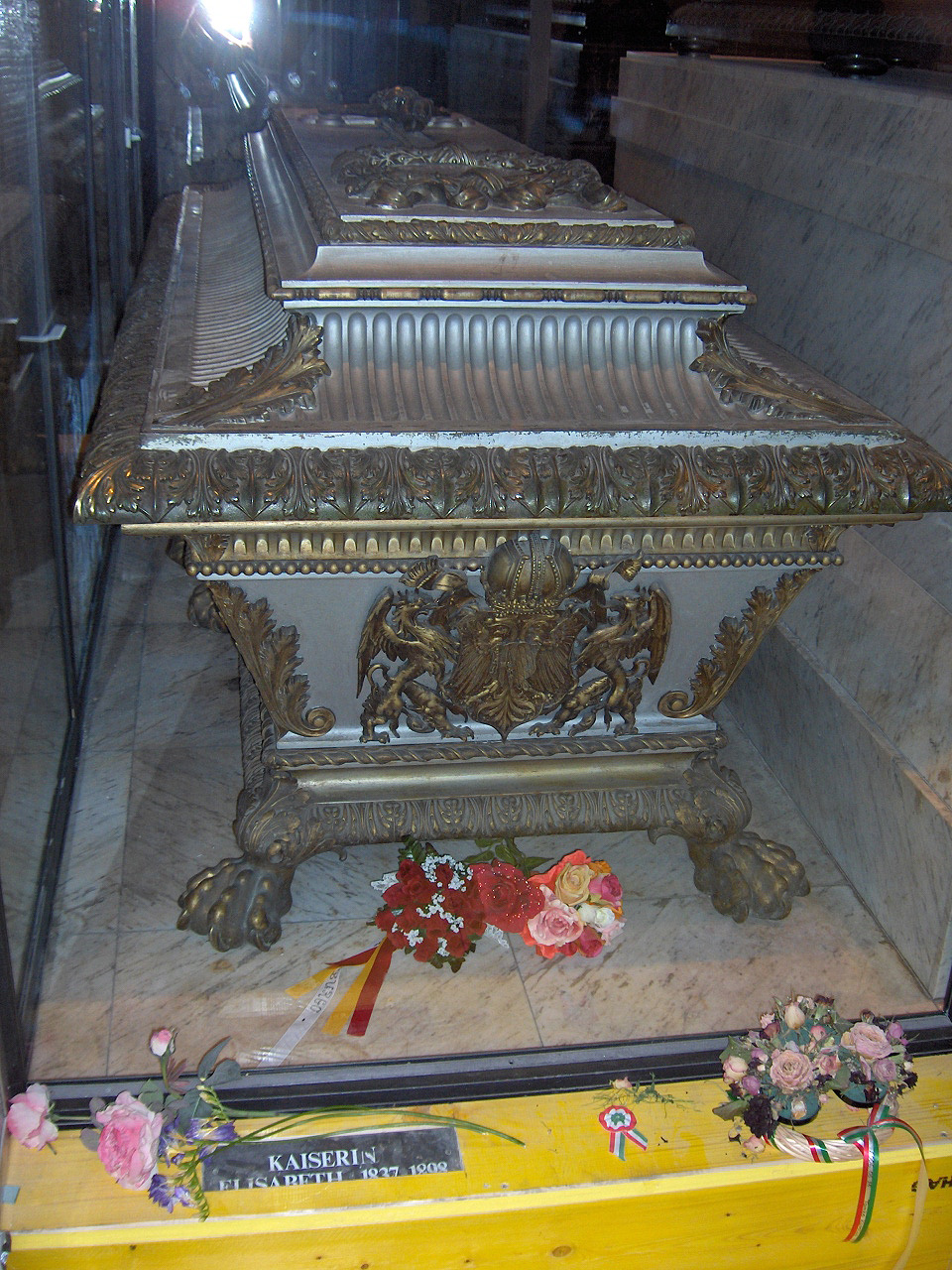 Tomb of Empress Elisabeth of Bavaria ("Sisi") (1837 - 1898) in the Kaisergruft, Vienna